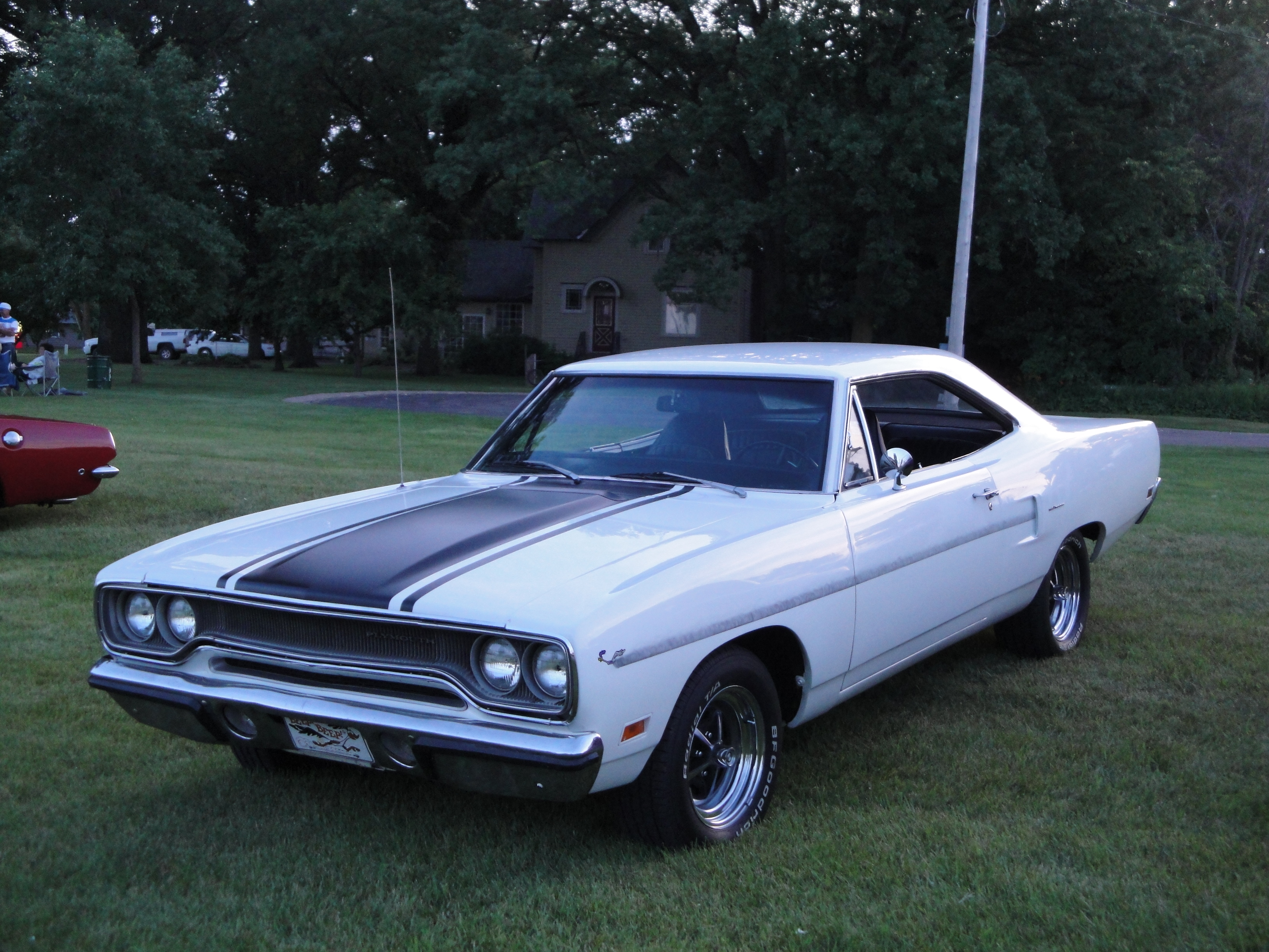 70 Plymouth Road Runner